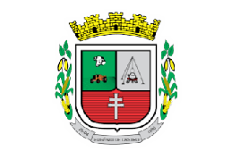 Flags of the city of Eugênio de Castro, Rio Grande do Sul, Brazil.